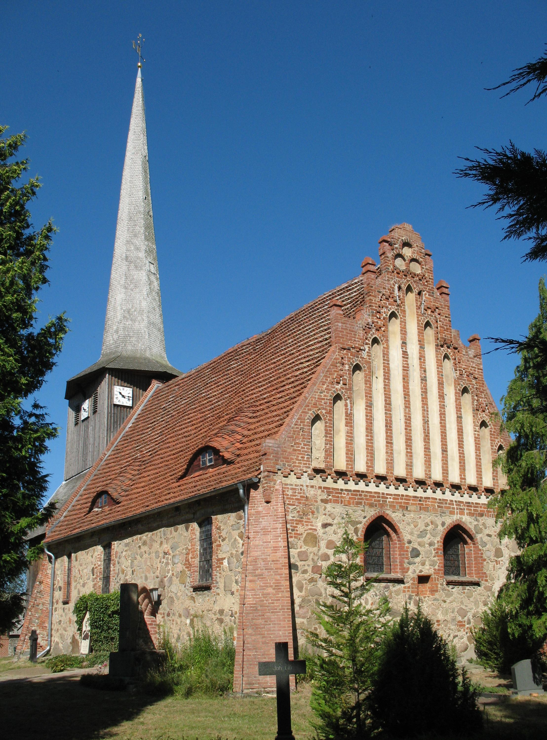 Church in Suckow in Mecklenburg-Western Pomerania, Germany